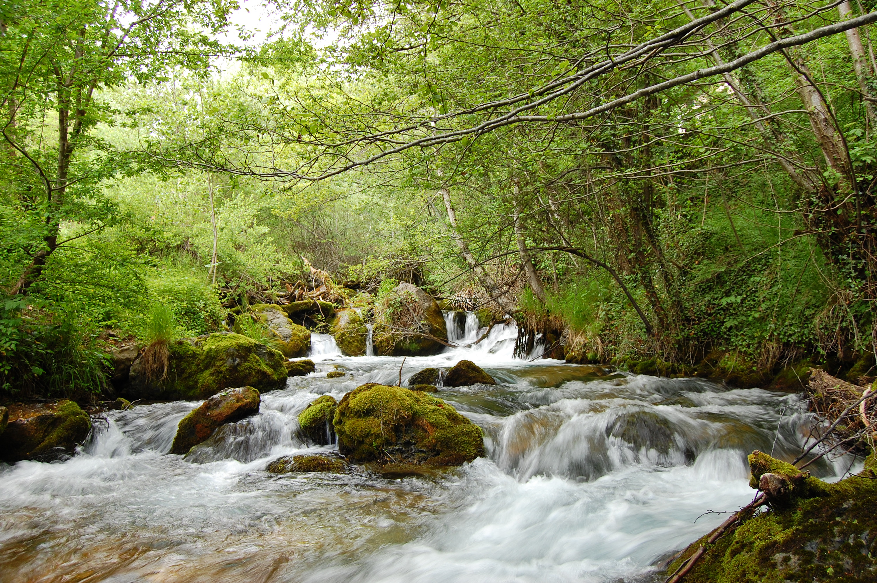 Vevcani springs